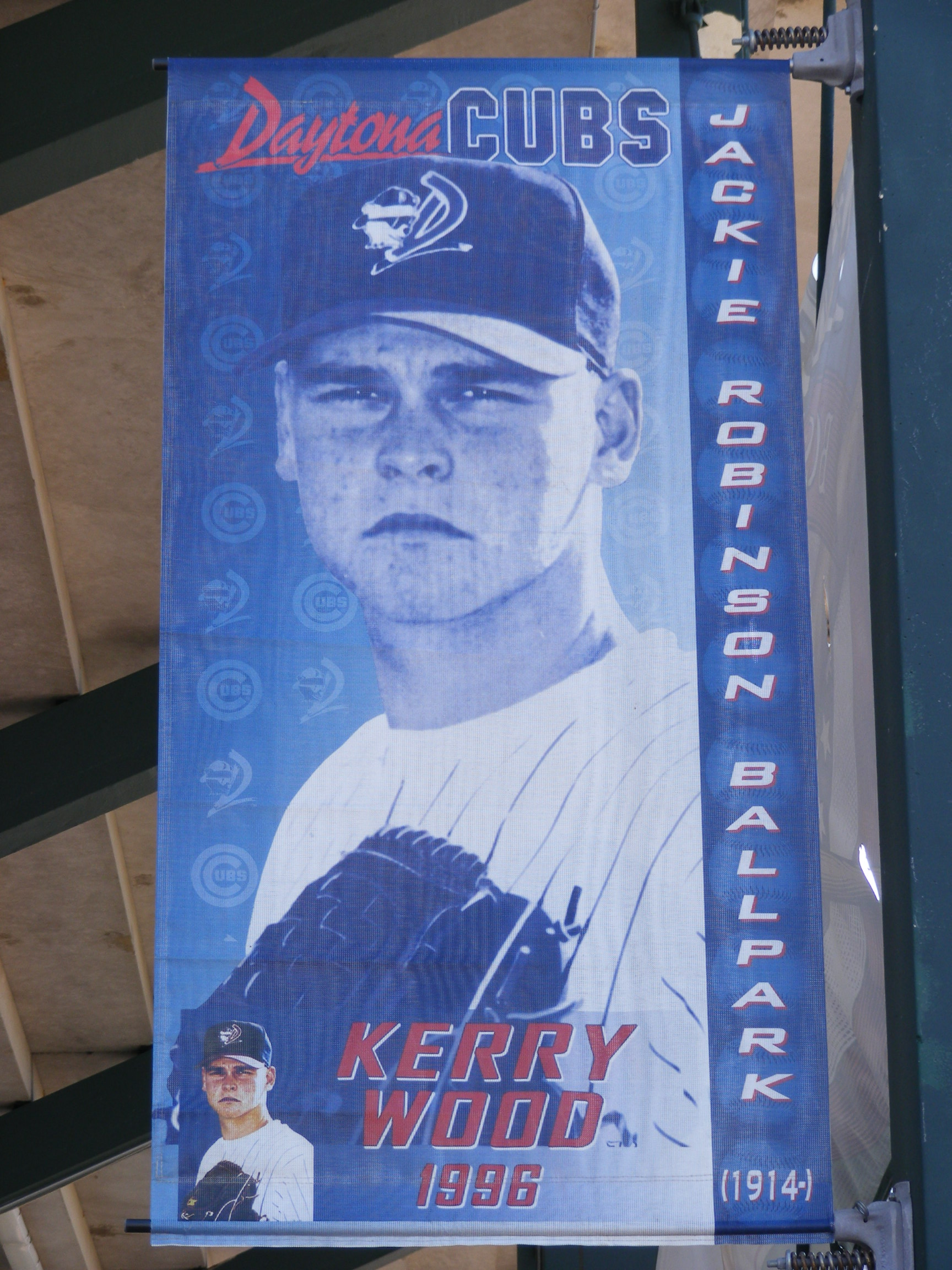 Poster of Kerry Wood (Daytona Cubs) at Jackie Robinson Ballpark, Daytona Beach, Florida.